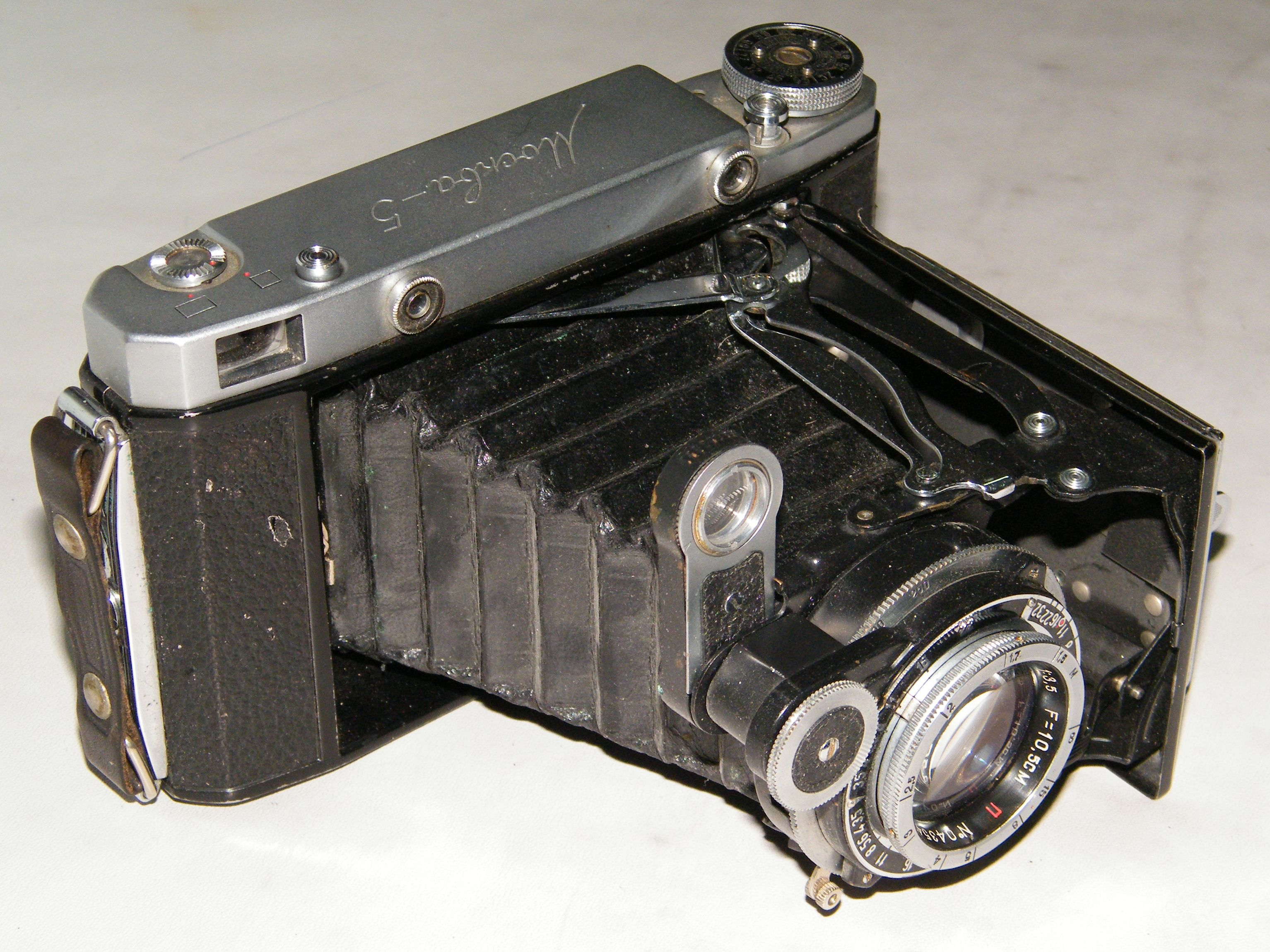 MOSKVA-5 KMZ camera from Evgeniy Okolov collection